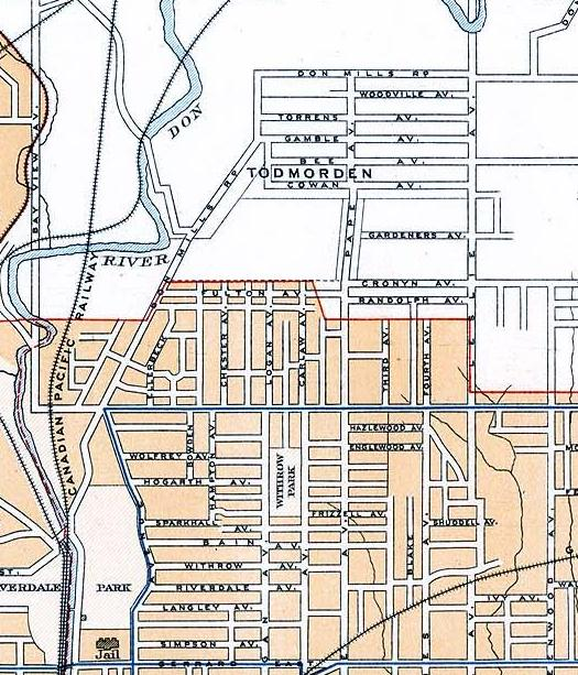 Map of Todmorden (today East York in Toronto) and what is today the Riverdale neighbourhood. (excerpt of Toronto map)